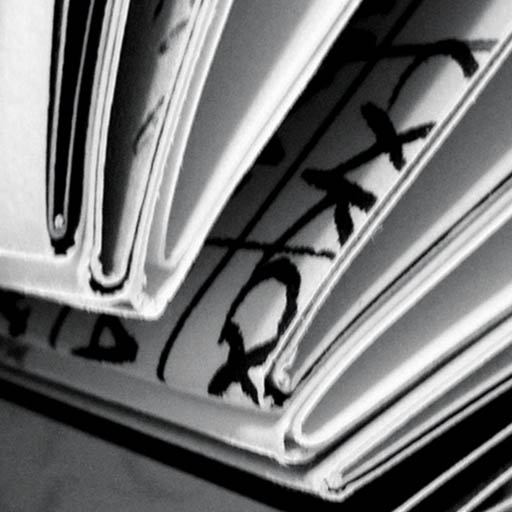 This book would like to explore further the page as a cultural phenomenon. Its architecture, its materiality, its ability to remain persuasive through time. Its history. And its future which inspires us – with or without the codex – reframing the meaning of the world.